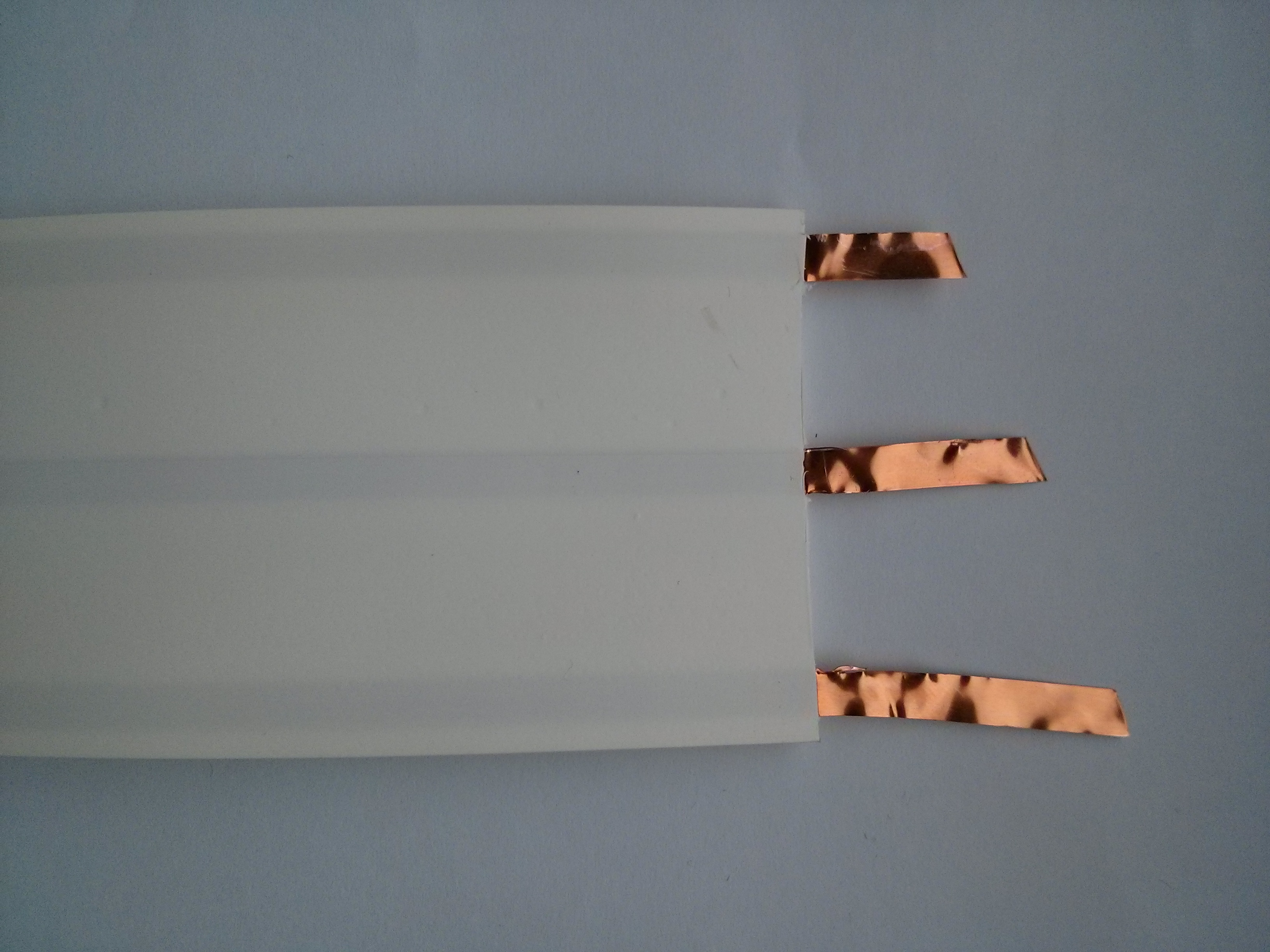 A TDR-Waveguide used for measuring moisture content.